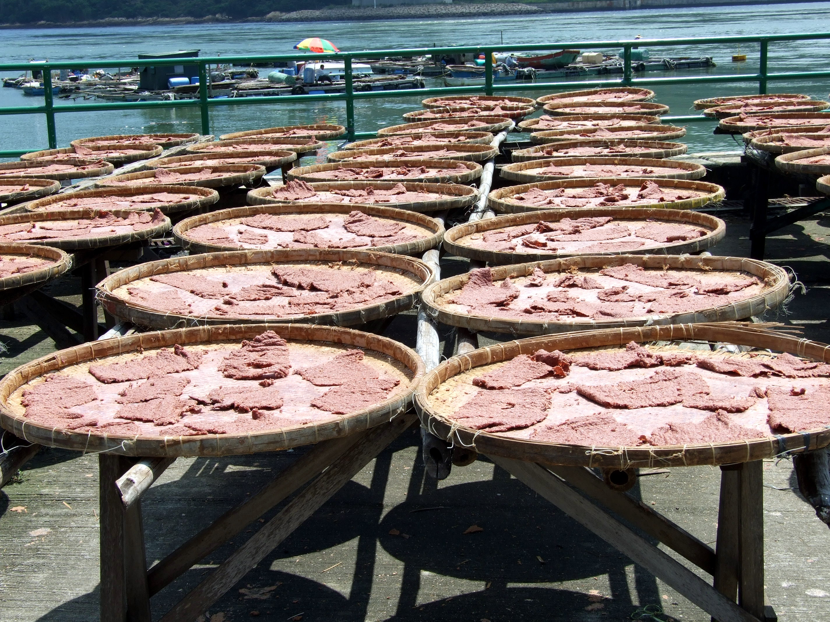 Shrimp paste drying in Hong Kong